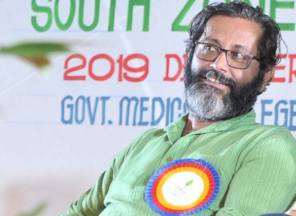 Rajesh Sharma is an Indian actor, who appears in Malayalam movies. He acted in several dramas and debuted in Malayalam movie industry in 2005